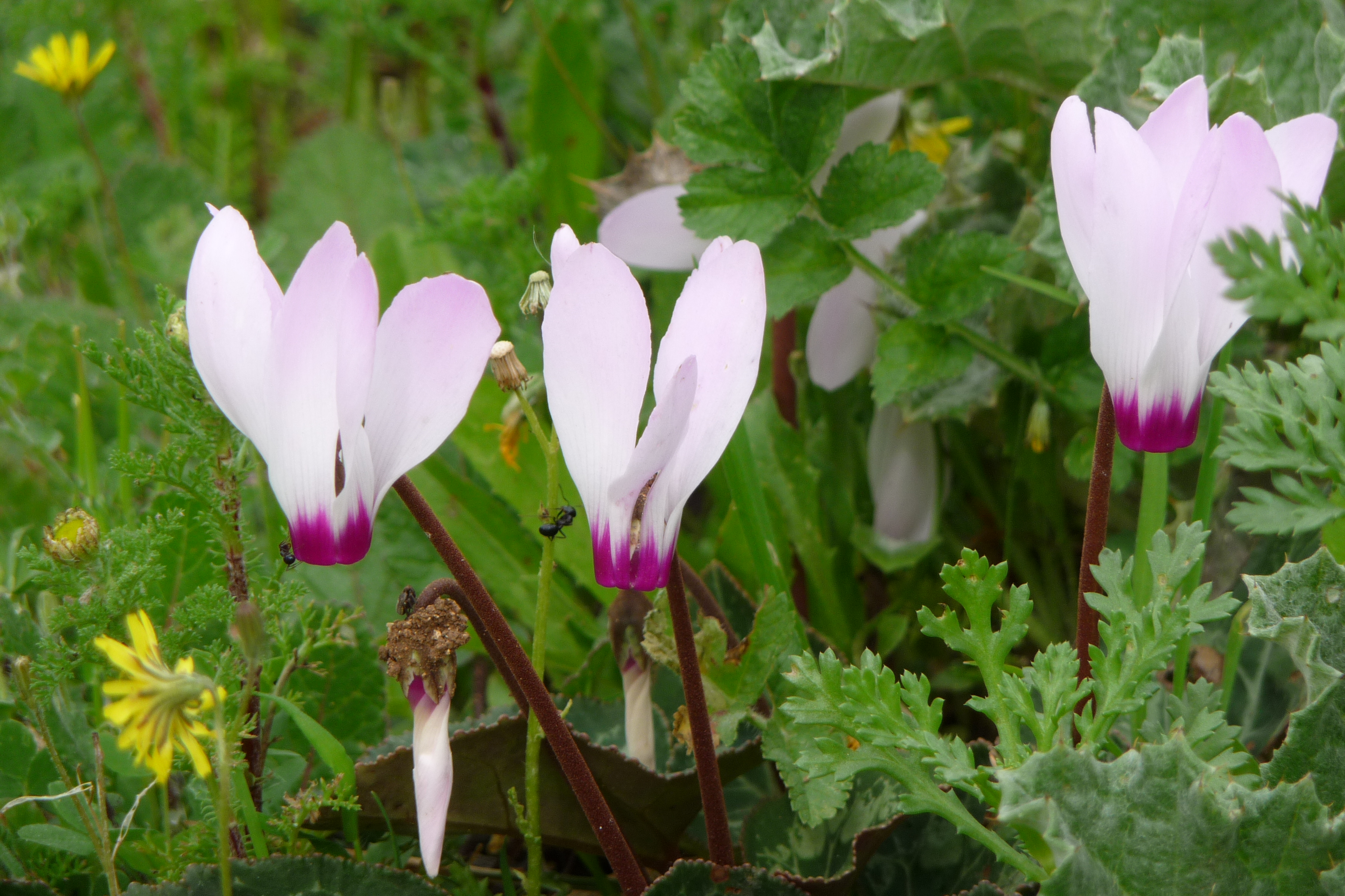 Beit Oren is a kibbutz in northern Israel. It falls under the jurisdiction of Hof HaCarmel Regional Council.